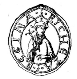 Richensa of Lotharingia